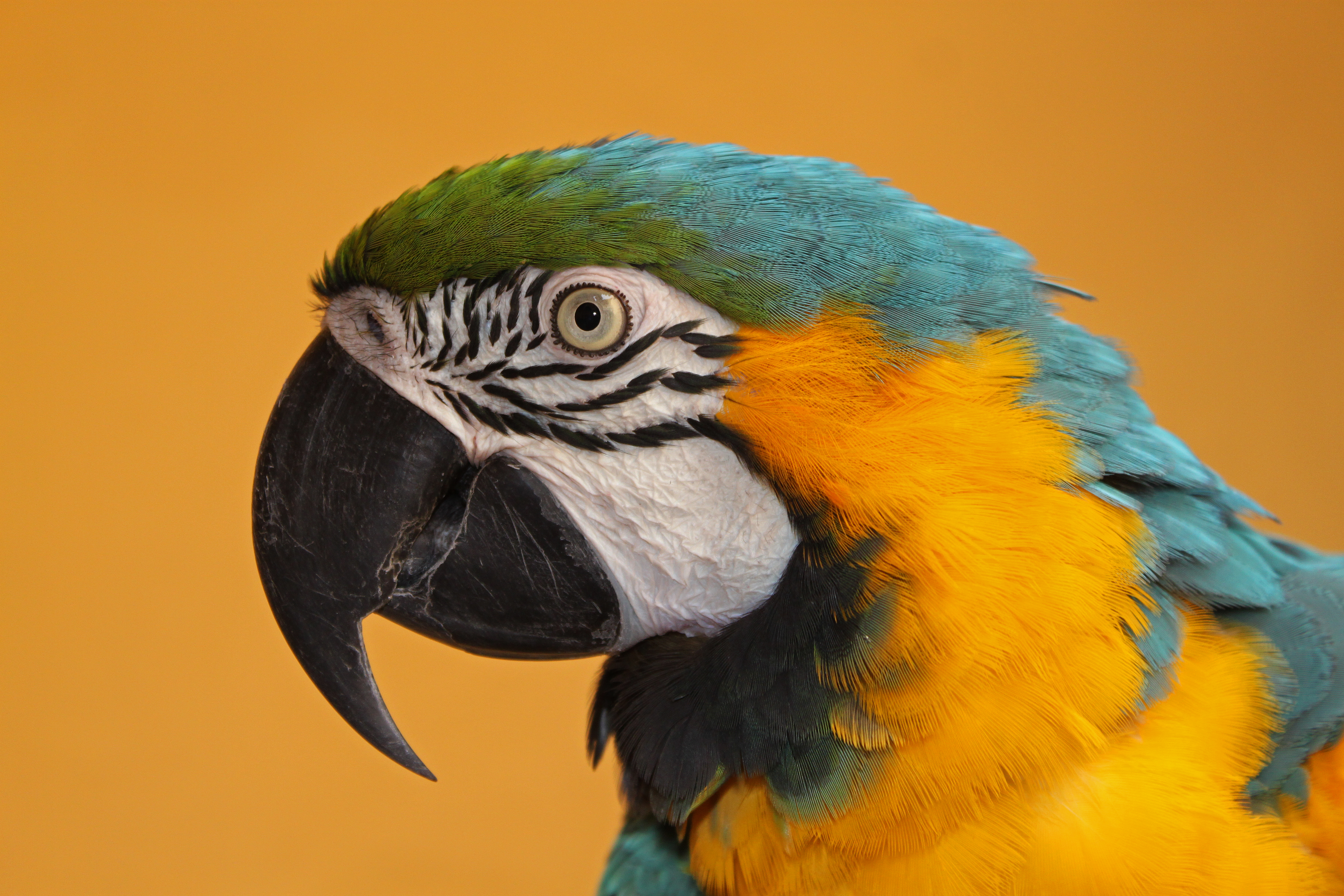 Blue-and-yellow Macaw; Casa de Colón, Las Palmas, Gran Canaria, Spain.